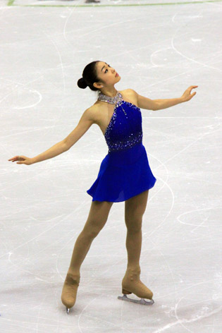 Kim Yu-Na at the 2009 Skate America.